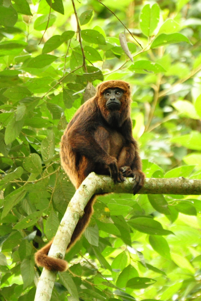 Howler Monkey in Santa Maria de Jetiba, Brazil.